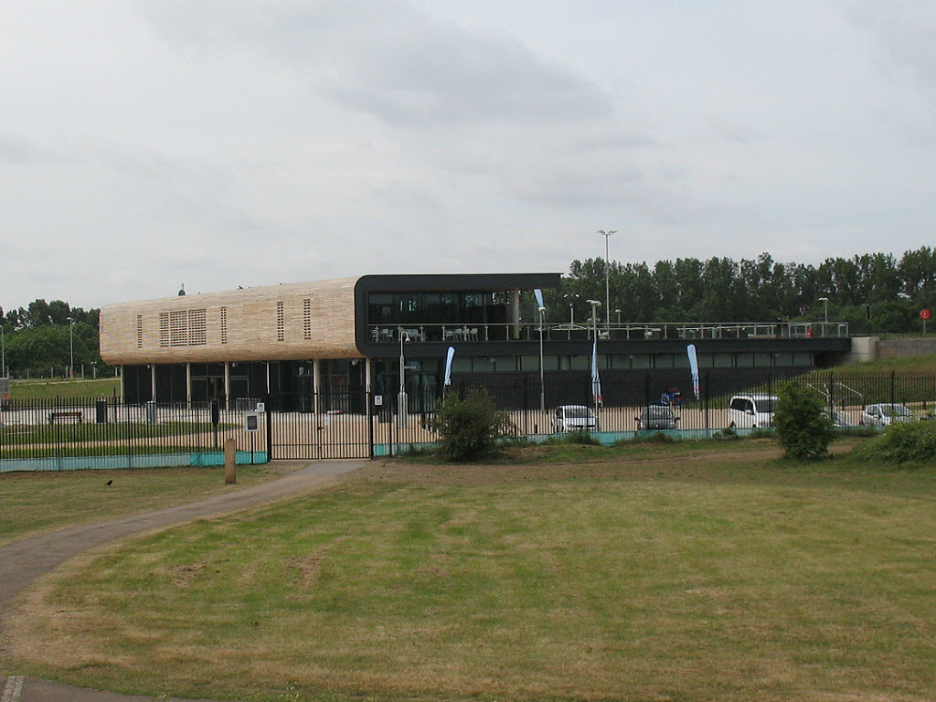 This building is the "main stand" referred to in the construction-strange photo TL3700 : Olympic White Water Canoe Centre. The aquatics centre (including white-water facilities) was built on Cheshunt Marsh, intended mainly for the London 2012 Olympics but by this time (May 2011) was already open to the public.